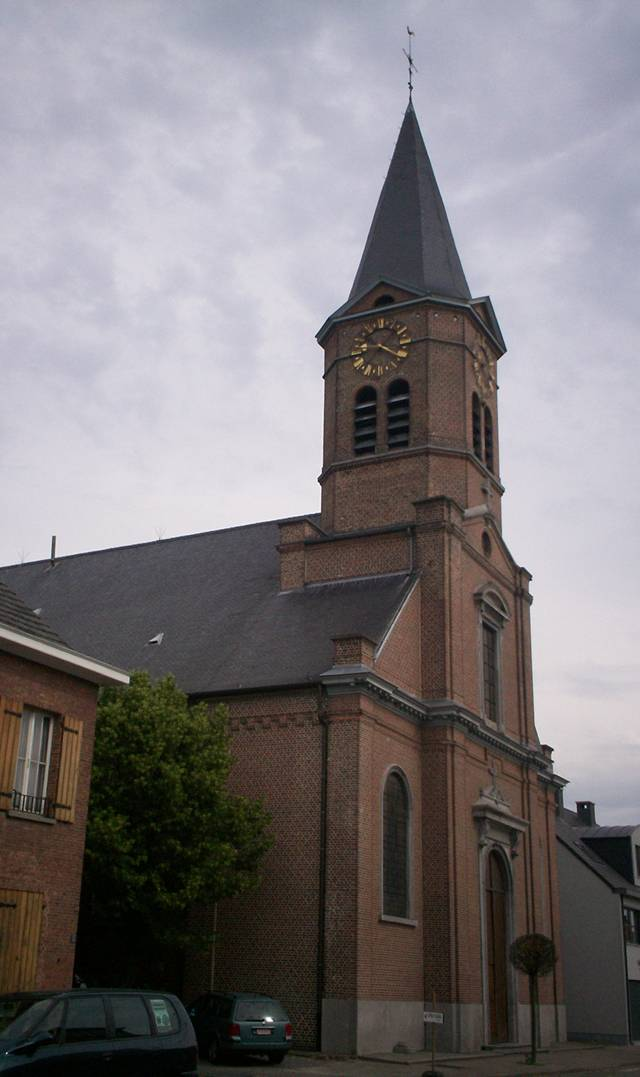 Church of the Assumption of Mary in Herdersem, Aalst, East Flanders, Belgium.